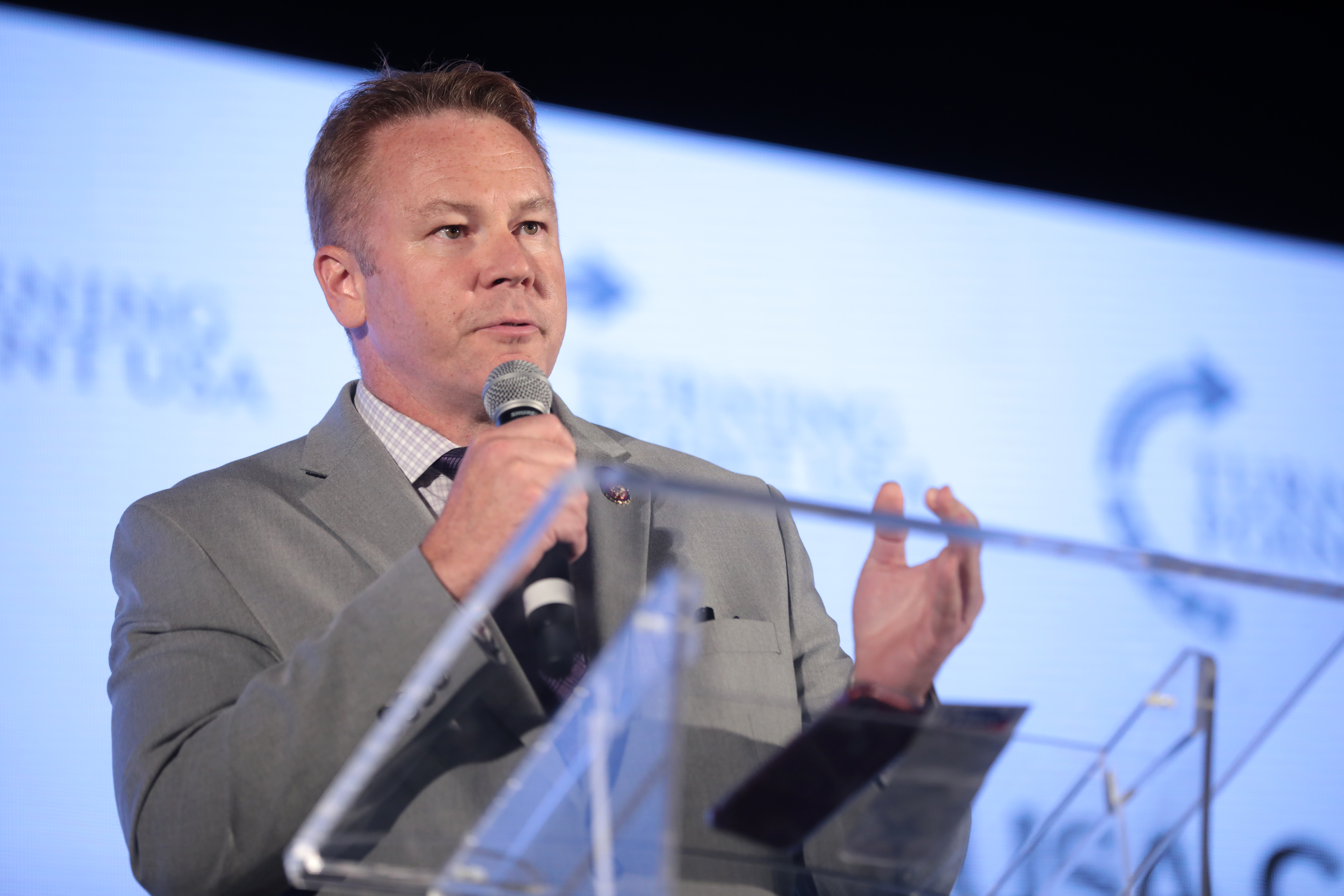 U.S. Congressman Warren Davidson speaking with attendees at the 2019 Teen Student Action Summit hosted by Turning Point USA at the Marriott Marquis in Washington, D.C.